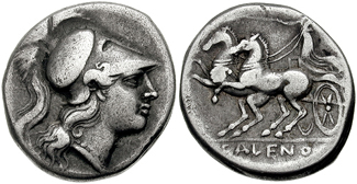 Campania, Cales. Circa 265-240 BC. AR Nomos (21mm, 7.14 g). Helmeted head of Athena right, wearing Corinthian helmet Nike, holding whip and reins, driving biga left.